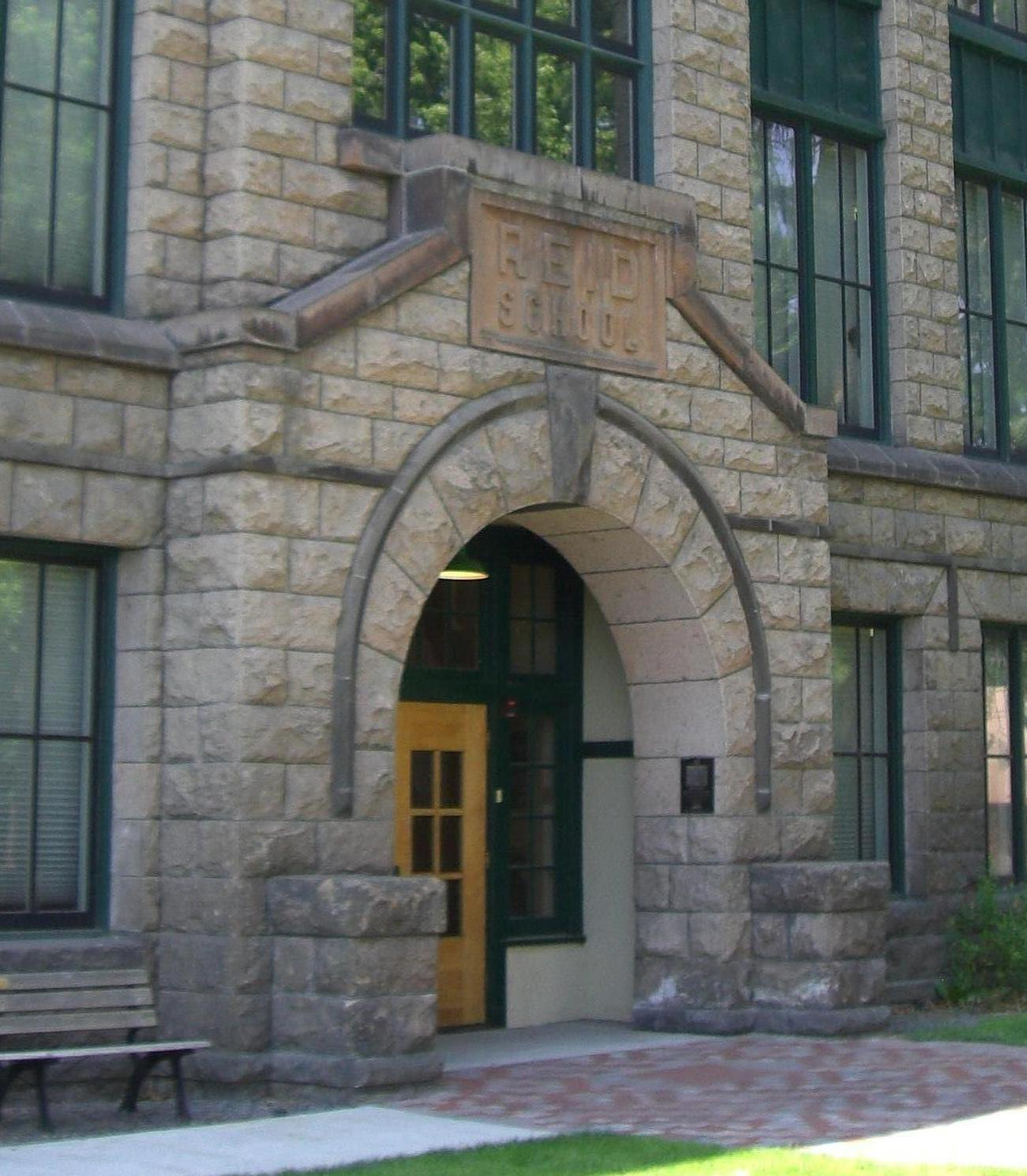 The historic Reid School in Bend, Oregon, United States, is listed on the US National Register of Historic Places (NRHP). NRHP reference number 79002053